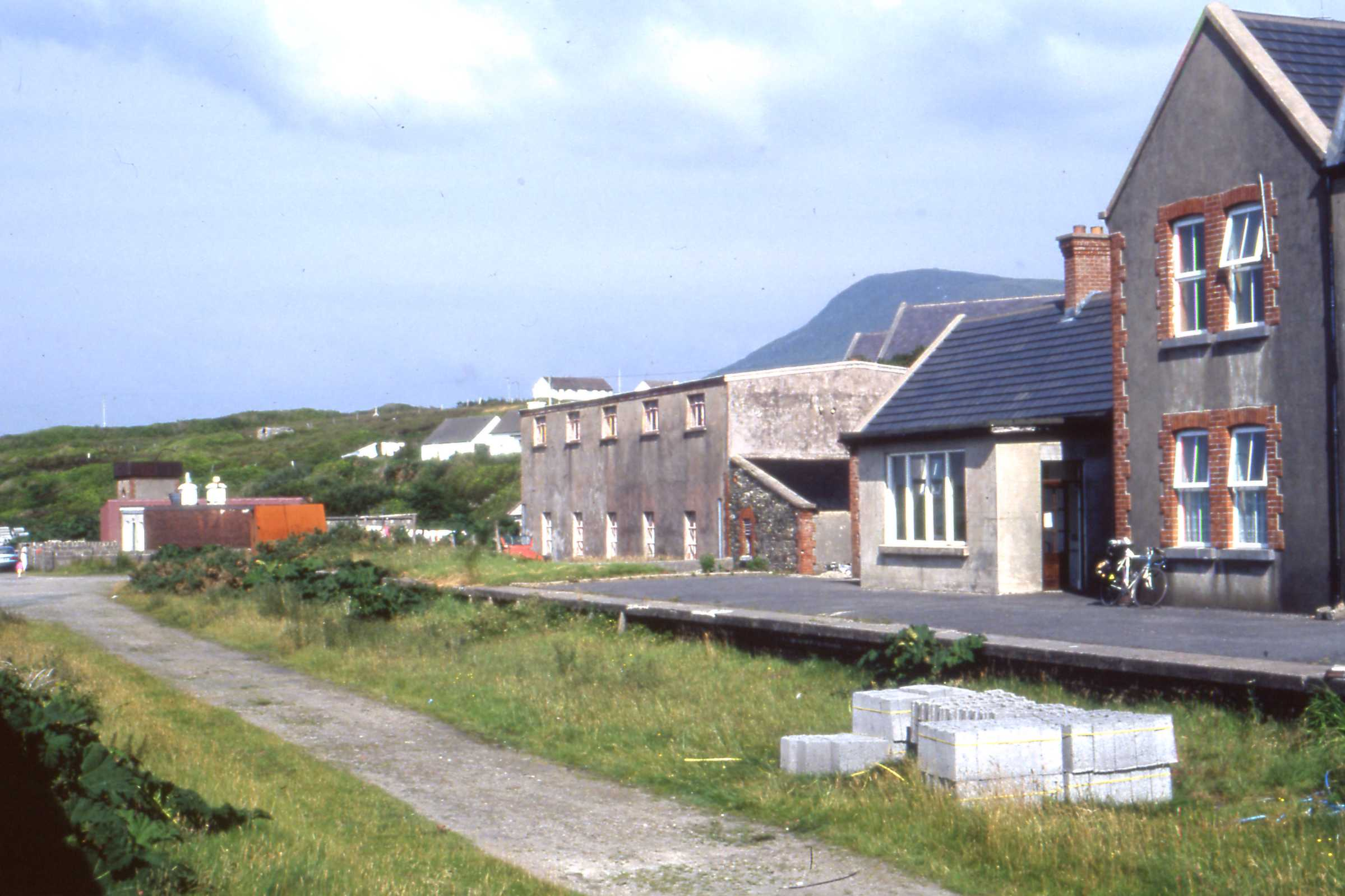 The terminus of the railway from Westport to Achill via Newport, closed in 1937.